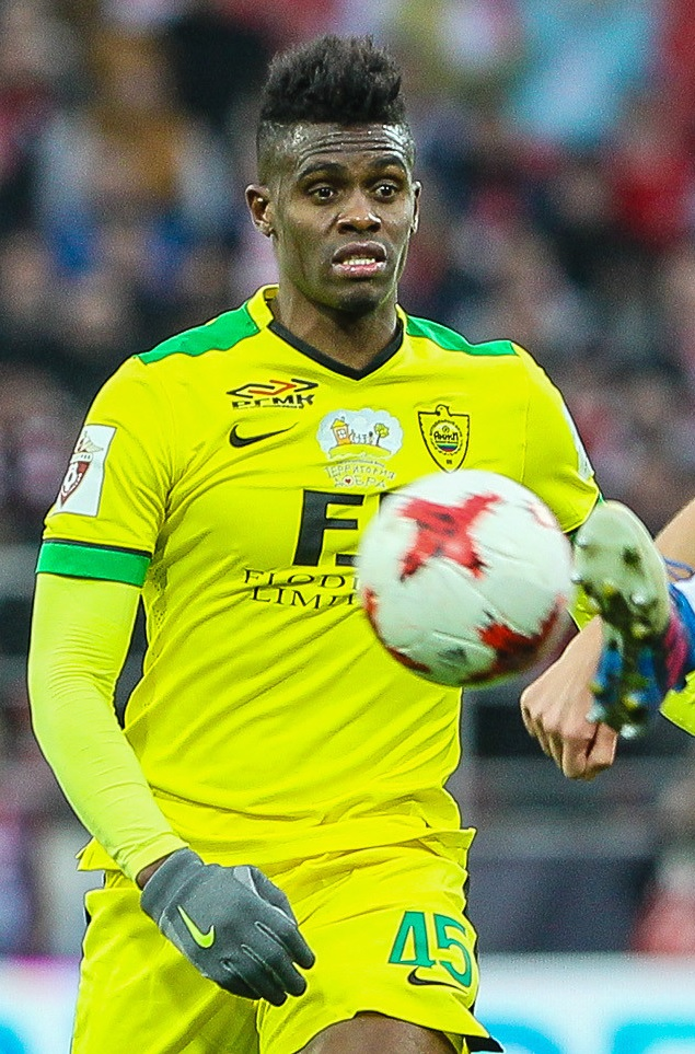 Thomas Phibel with FC Anzhi Makhachkala in a game against FC Spartak Moscow.